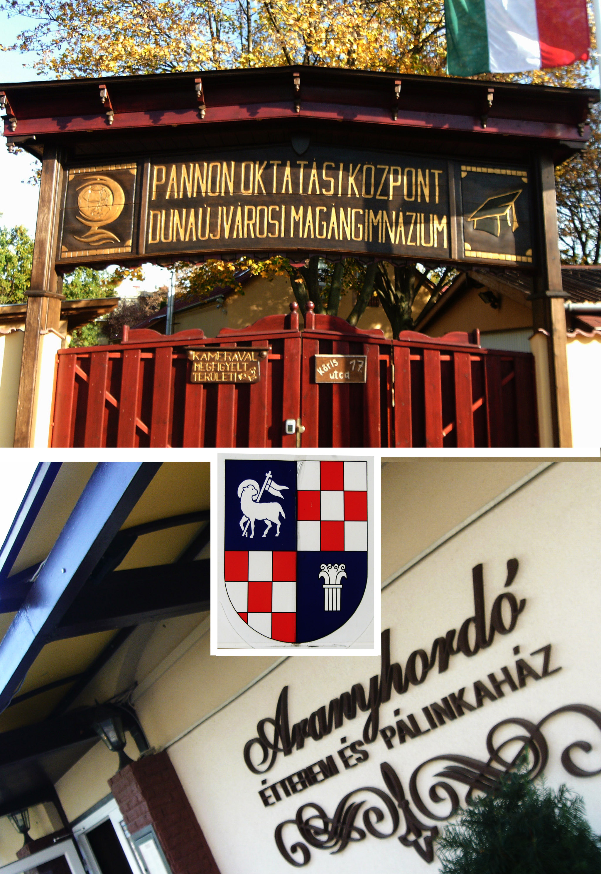 Dunaujvaros, Hungary